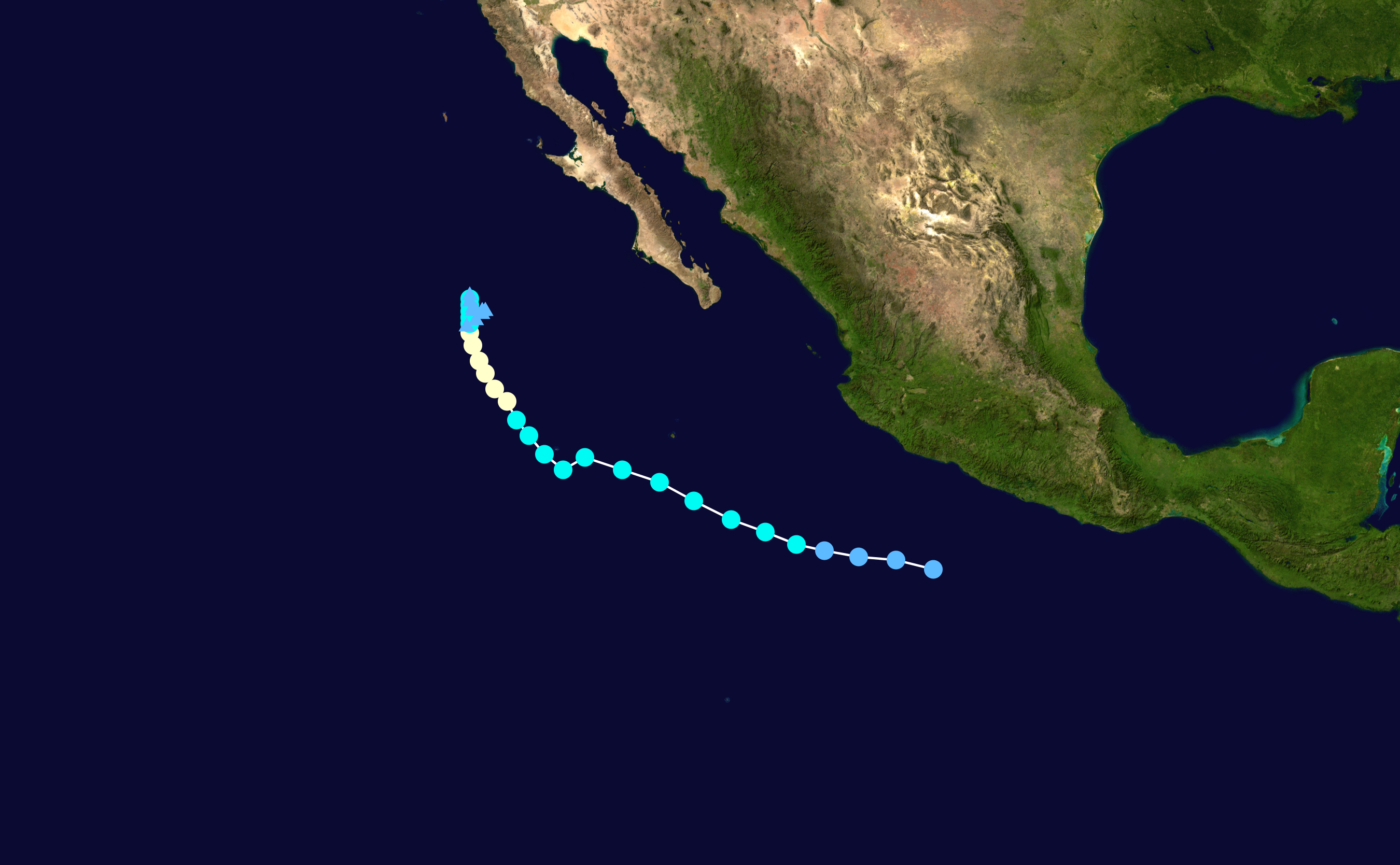 Track map of Hurricane Rachel of the 2014 Pacific hurricane season. The points show the location of the storm at 6-hour intervals. The colour represents the storm's maximum sustained wind speeds as classified in the Saffir–Simpson scale (see below), and the shape of the data points represent the nature of the storm, according to the legend below. Saffir–Simpson scale Tropical depression≤38 mph≤62 km/h Category 3111–129 mph178–208 km/h Tropical storm39–73 mph63–118 km/h Category 4130–156 mph209–251 km/h Category 174–95 mph119–153 km/h Category 5≥157 mph≥252 km/h Category 296–110 mph154–177 km/h Unknown Storm type Tropical cyclone Subtropical cyclone Extratropical cyclone / Remnant low / Tropical disturbance / Monsoon depression